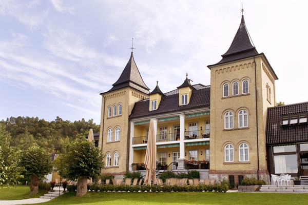 Hotel Refsnes Gods and garden